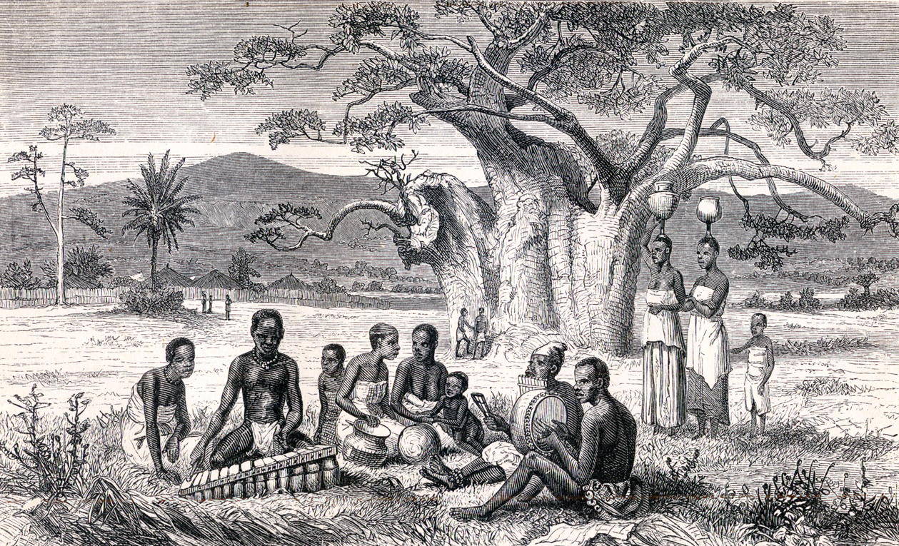 Women with Water-Pots, Listening to the Music of the Marimba, Sansa, and Pan’s Pipes. "A band of native musicians came to our camp one evening, on our own way down, and treated us with their wild and not unpleasant music on the Marimba, an instrument formed of bars of hard wood of varying breadth and thickness, laid on different-sized hollow calabashes, and tuned to give the notes; a few pieces of cloth pleased them, and they passed on." [p. 63]